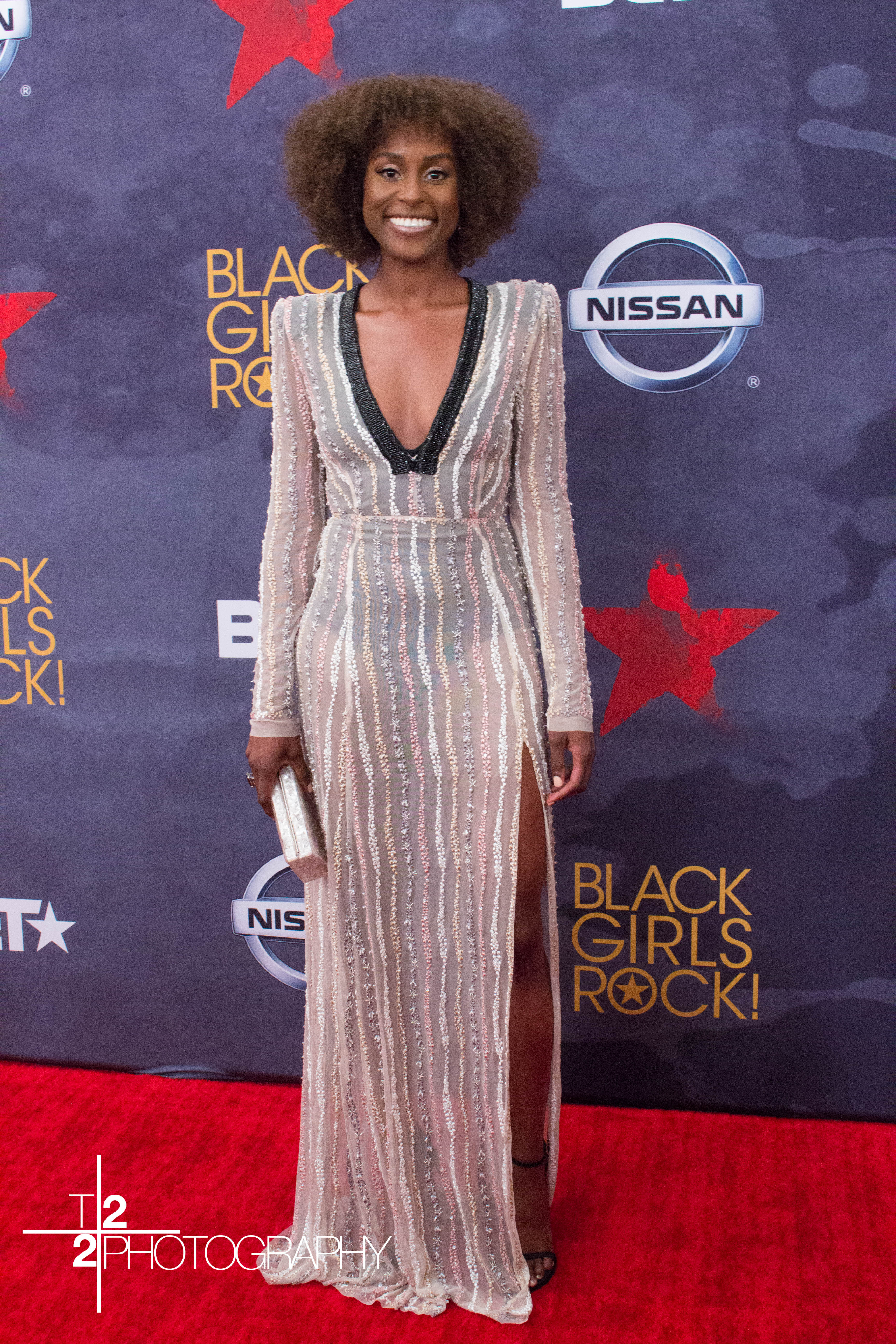 Issa Rae at BET's Black Girls Rock show